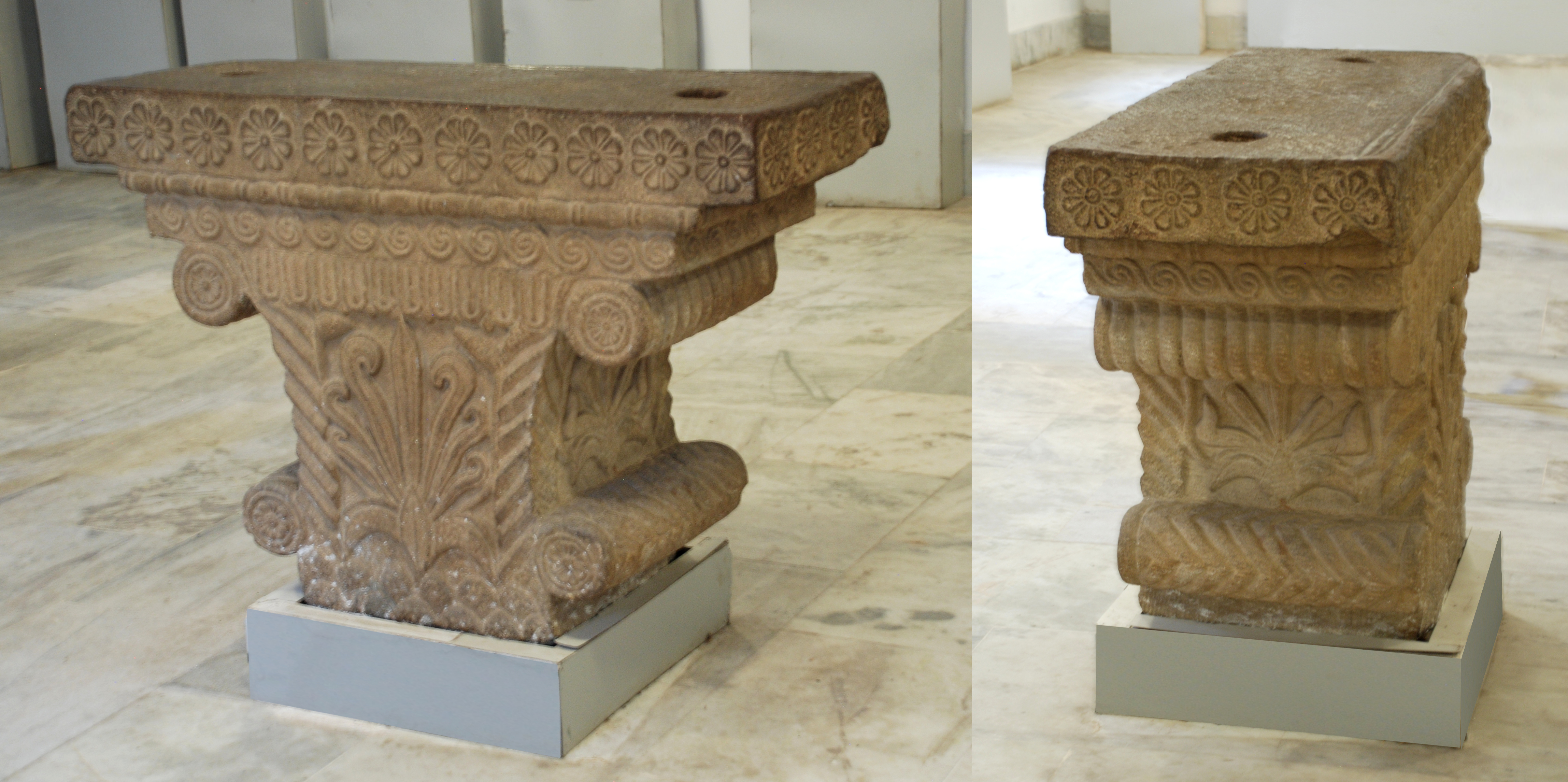 Pataliputra capital front and side view